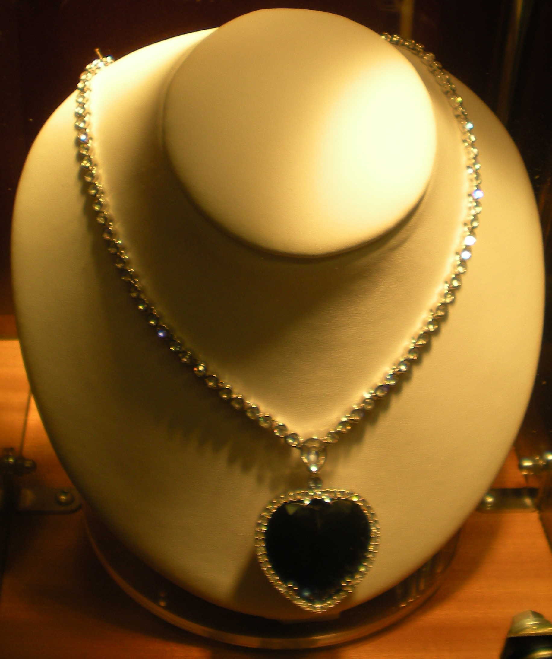 An example of the J. Peterman style necklace.